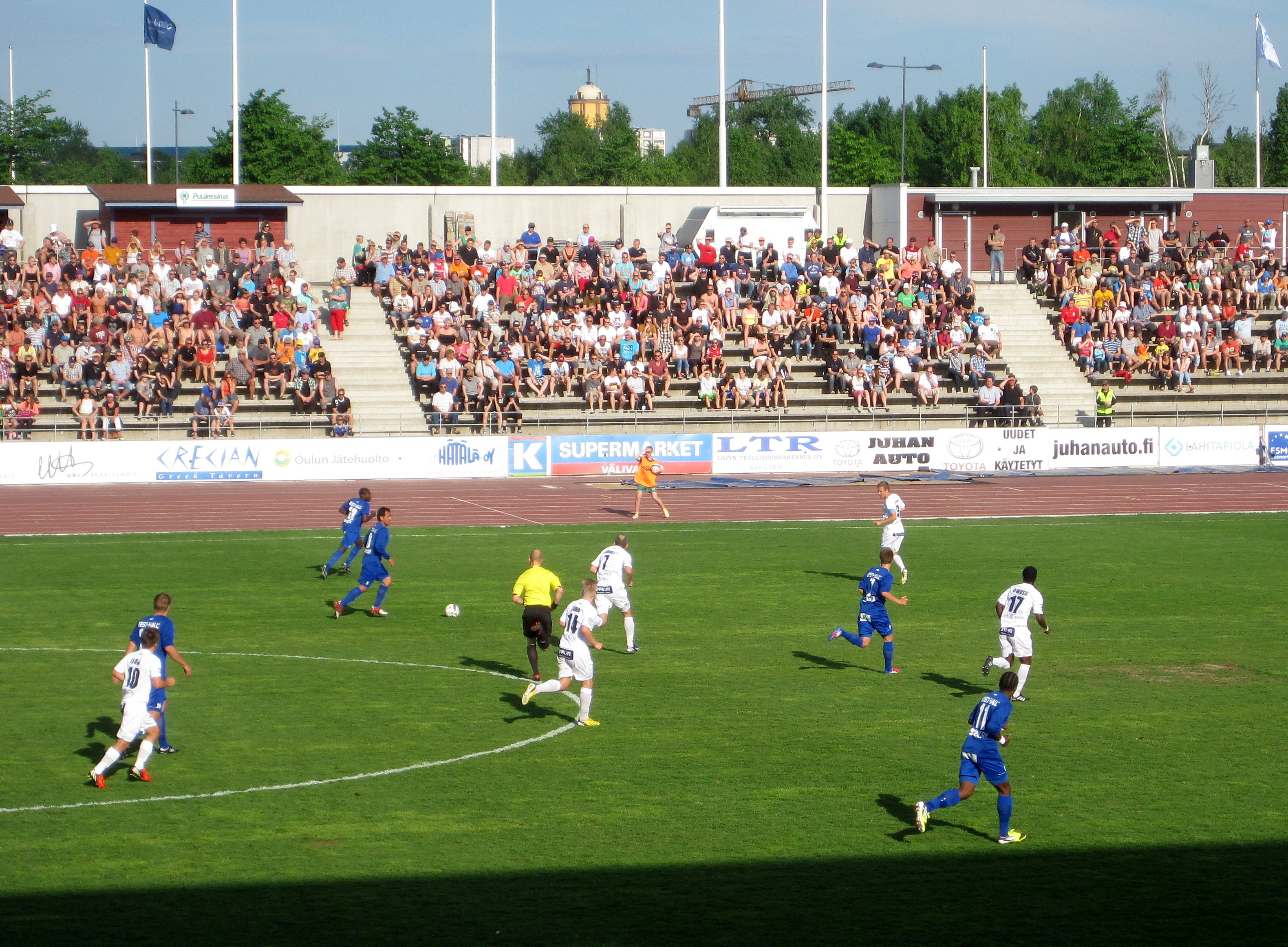 OPS vs AC Oulu football game at the Raatti Stadium in Oulu.